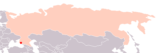 Location of Sochi in Russia